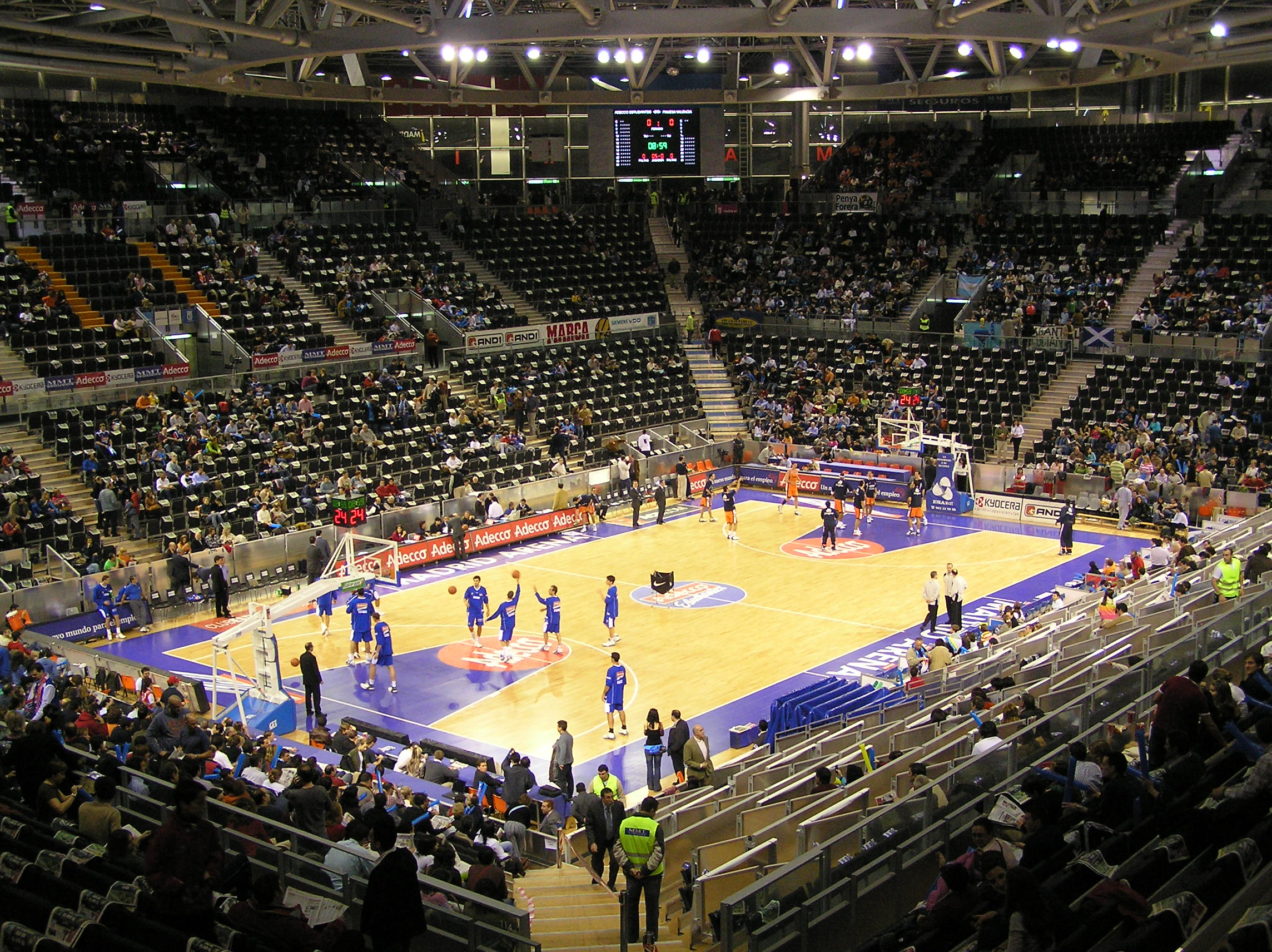 Madrid Arena Inside (Madrid, Spain) Author: Mr. Tickle Date: 19th November, 2005